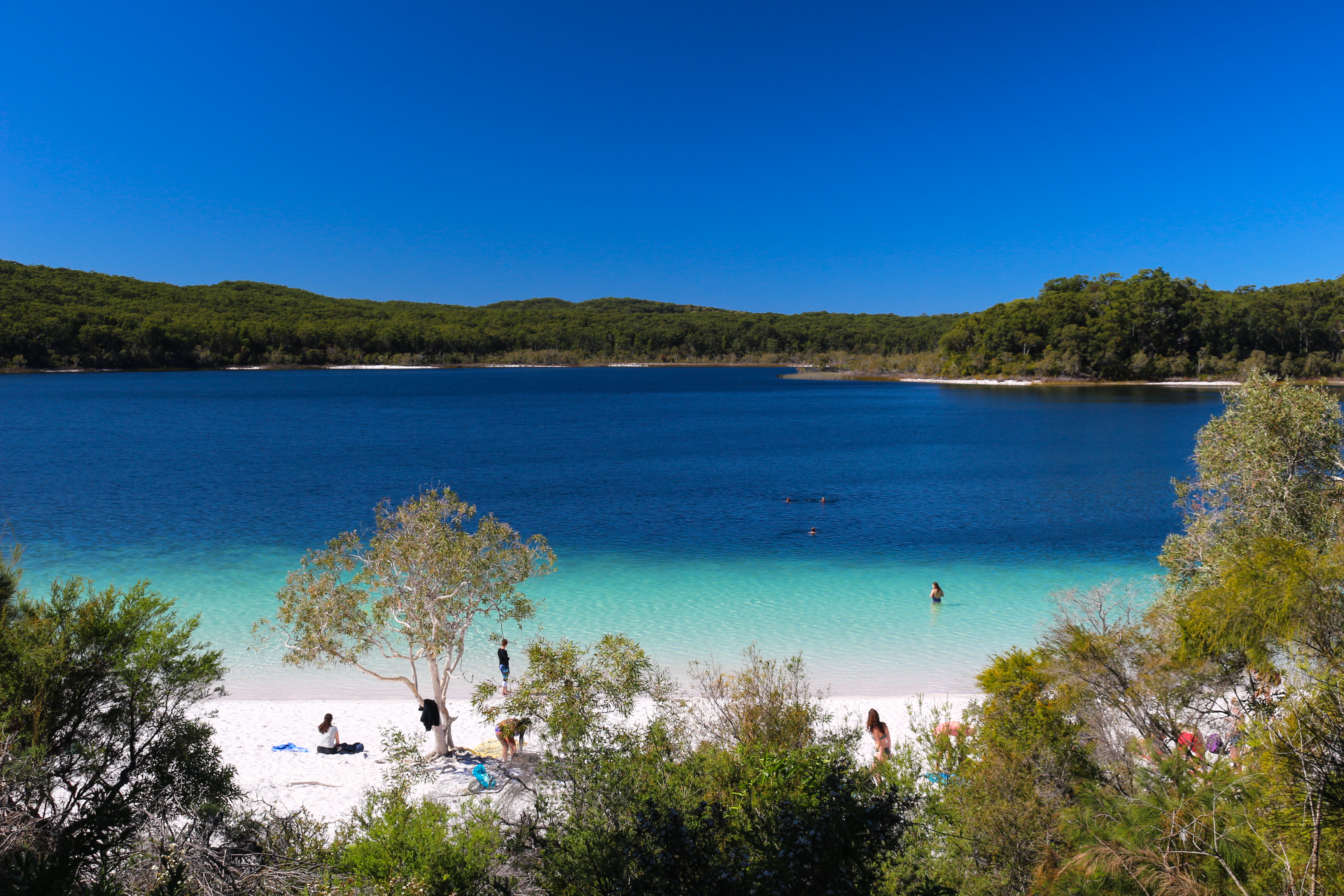 Australia, Queensland, Fraser Island, Lake McKenzie